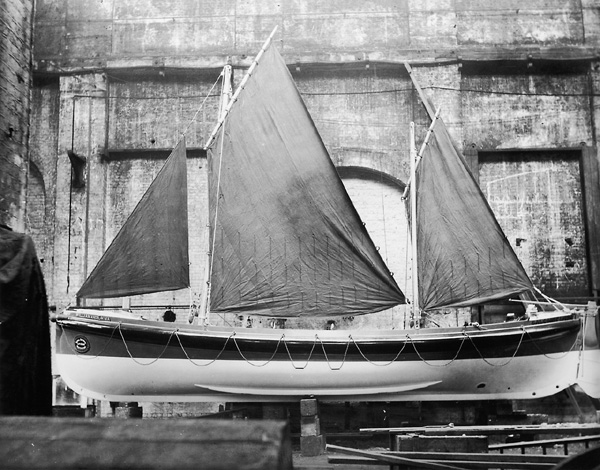 Reproduction ID: N16995 Maker: Unknown Date: 1904